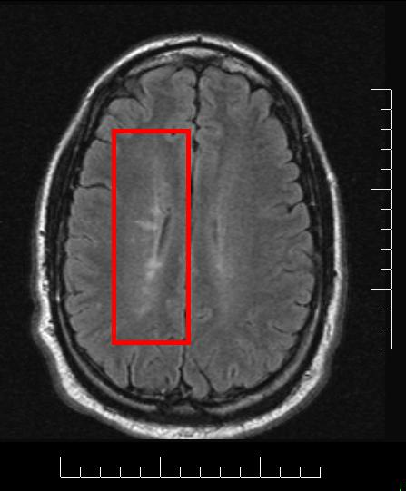 Self-created from an MRI scan of my own brain